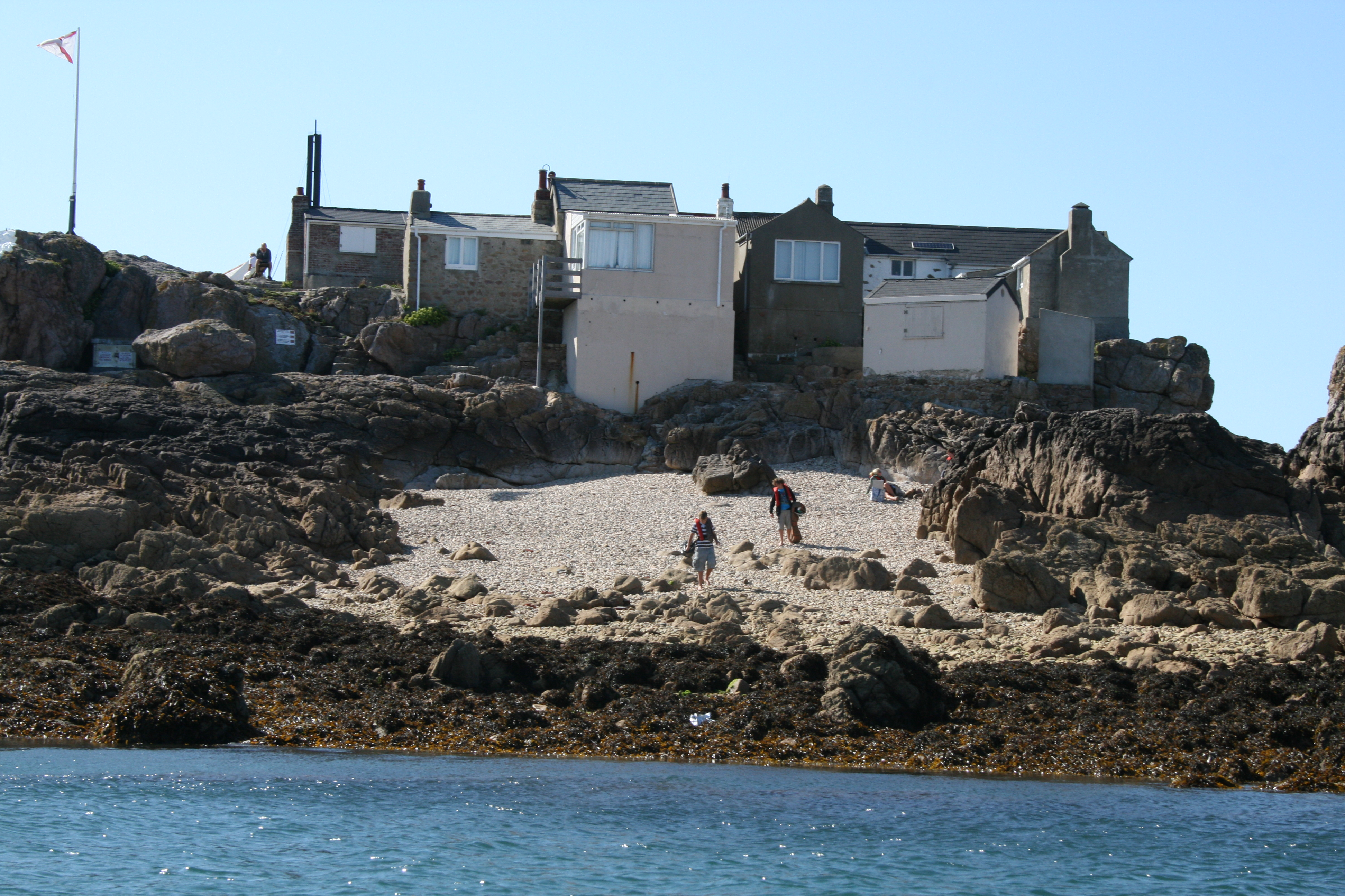 Maîtr'Île (Les Écréhous) From South